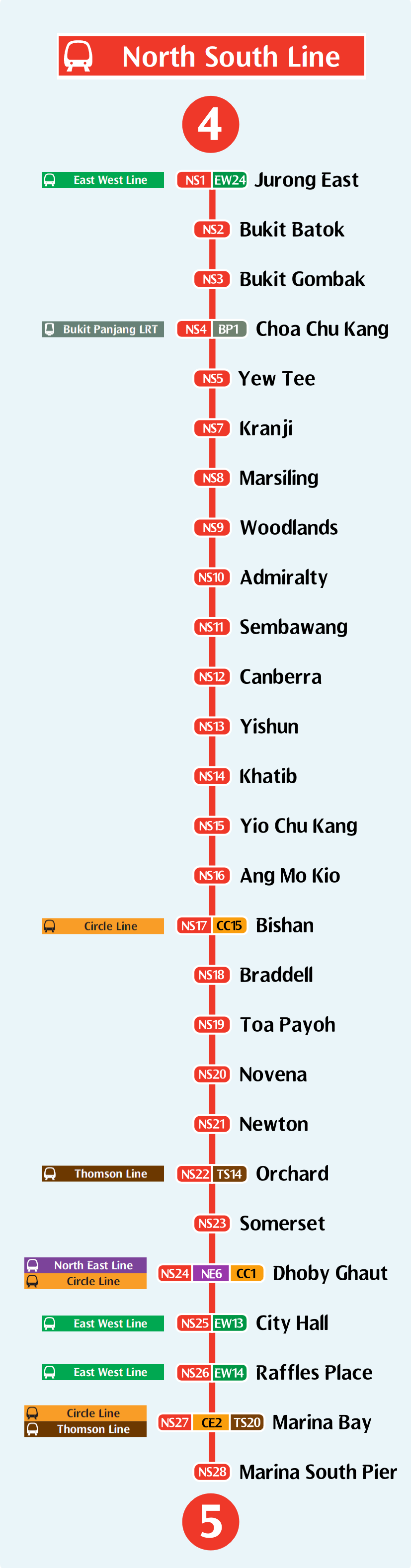 NSL station names